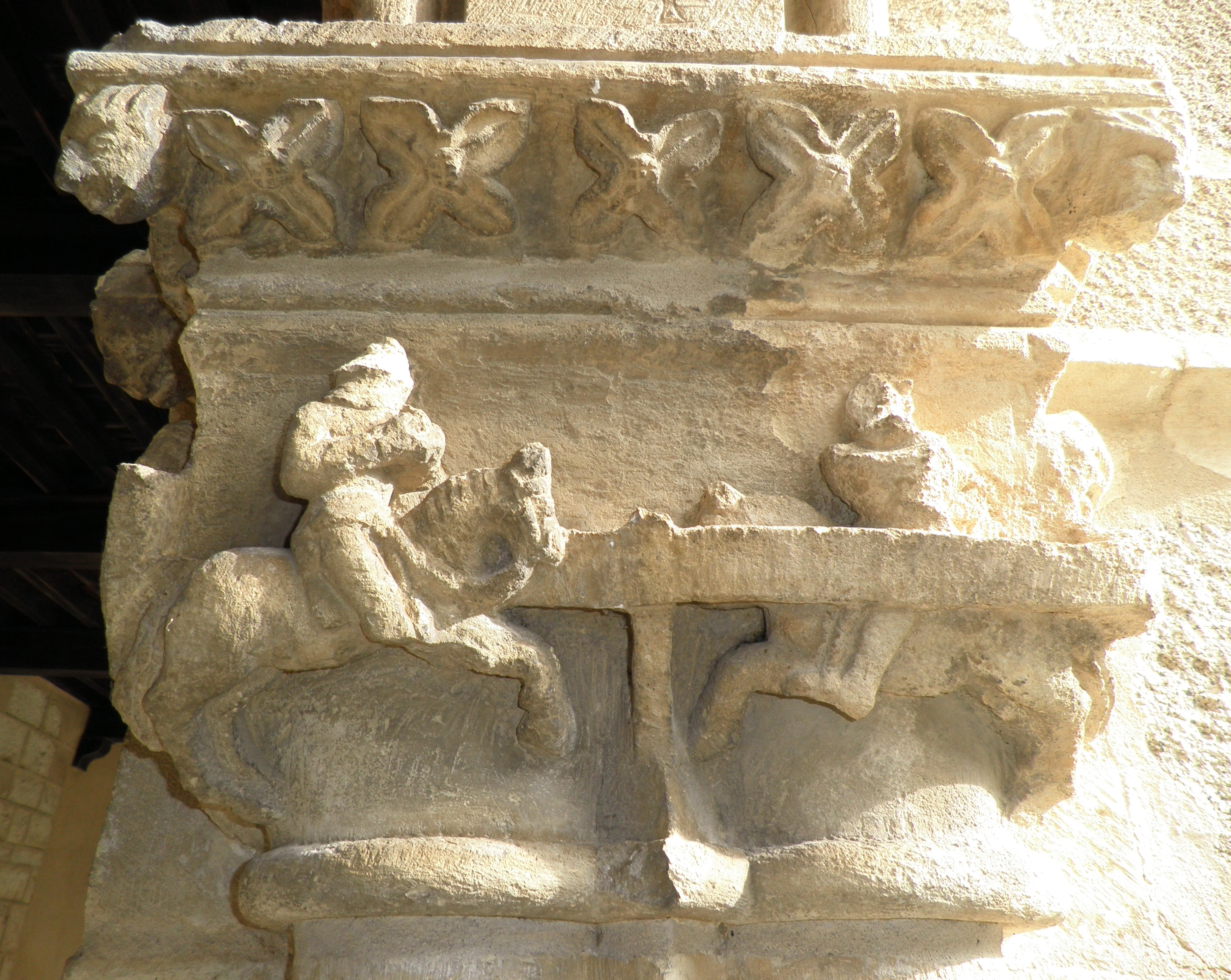 16th capital in northern corridor of the church of Santa María la Real de Nieva, Segovia province, Spain. Knights in tournament.